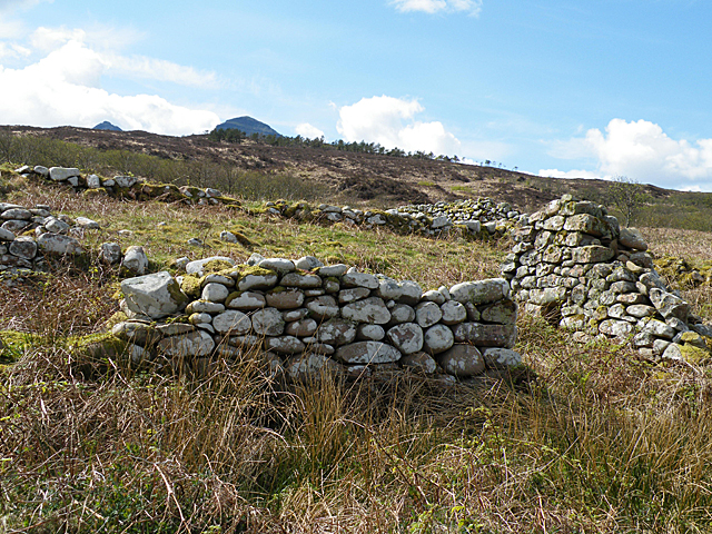 Ruins at Port-na-Caranean